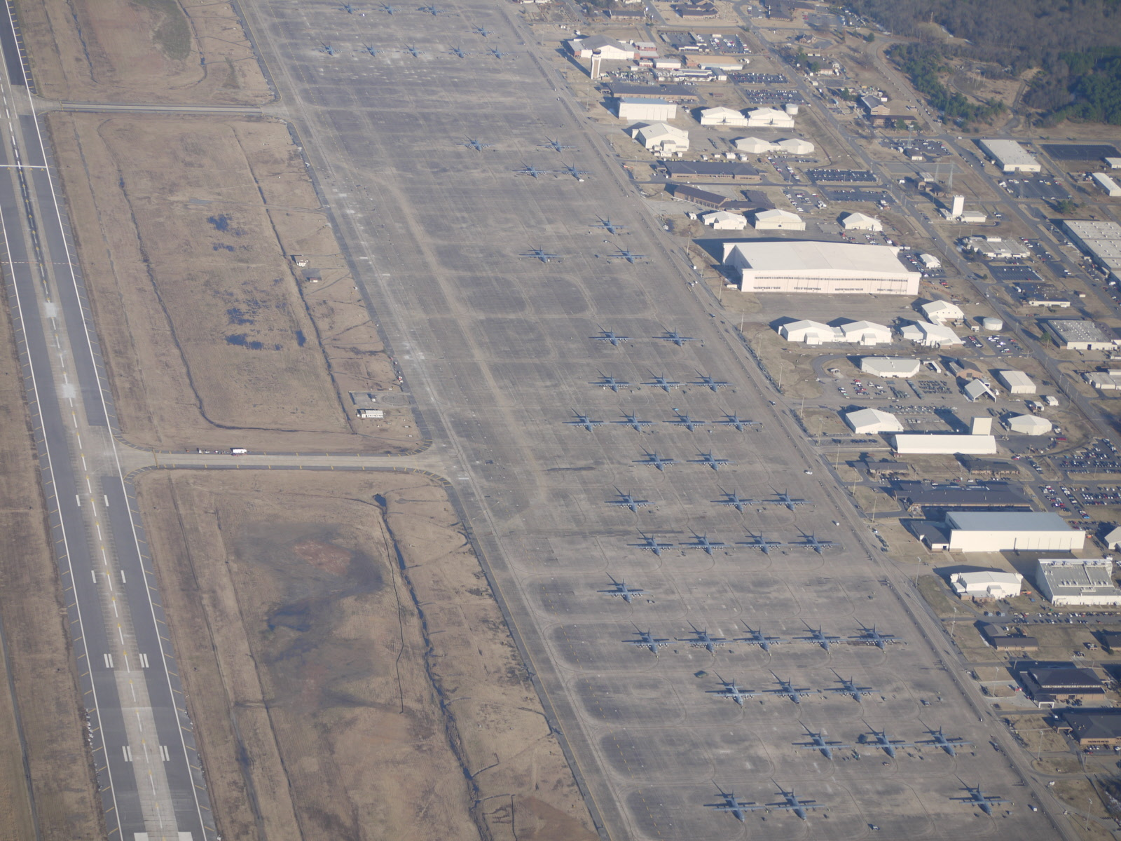 Aerial photo of Little Rock AFB